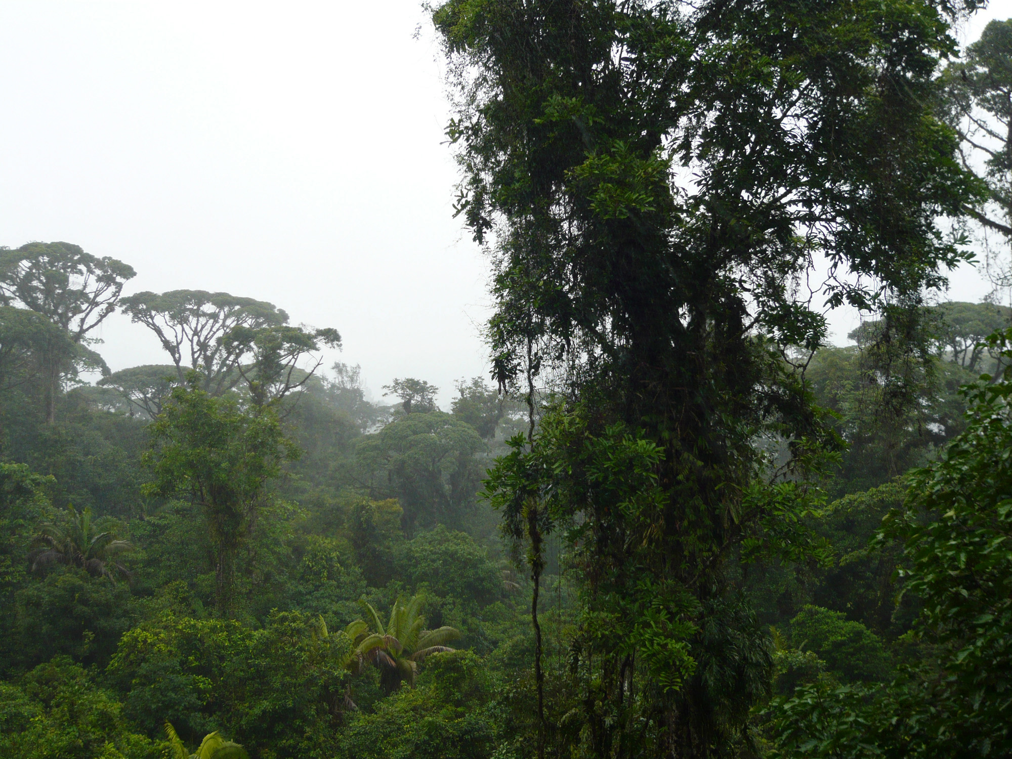 Braulio Carrillo National Park — in central Costa Rica. Showing Talamancan montane forests, a cloud forest ecoregion in park's higher elevations.